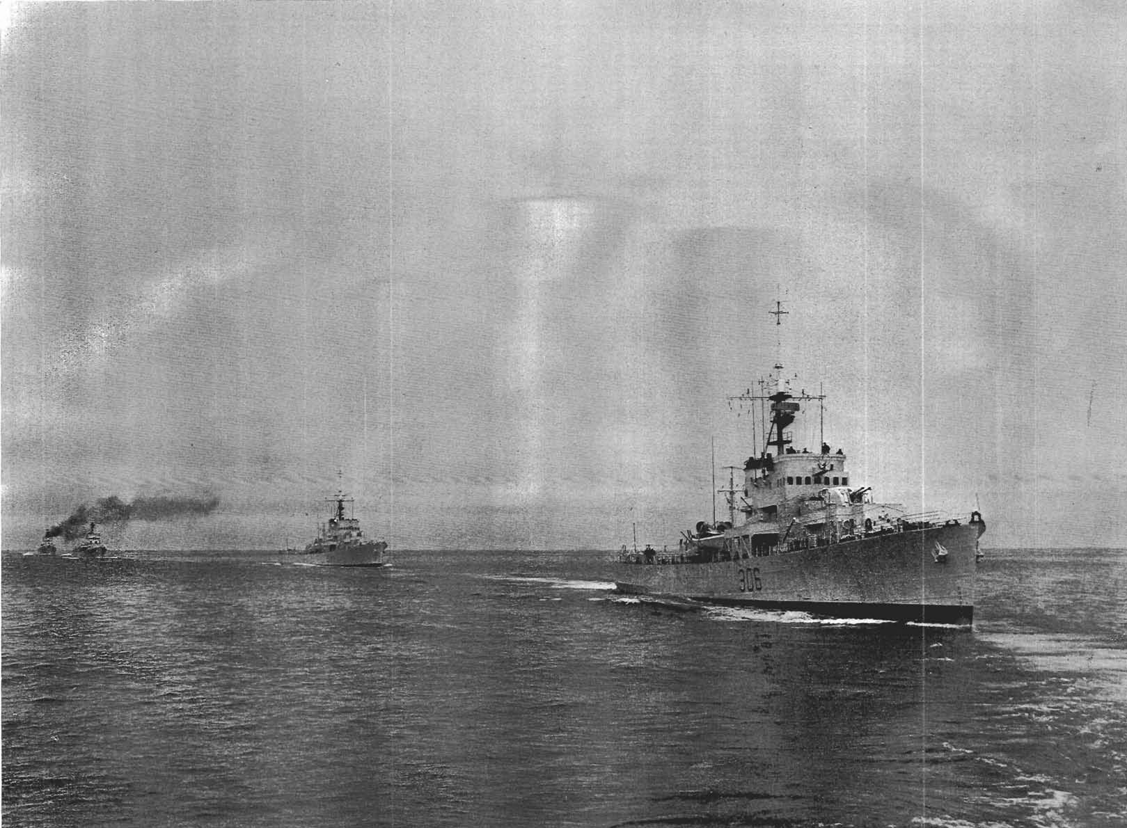 The HMCS Swansea (FFE 306) in formation with other ocean escorts.